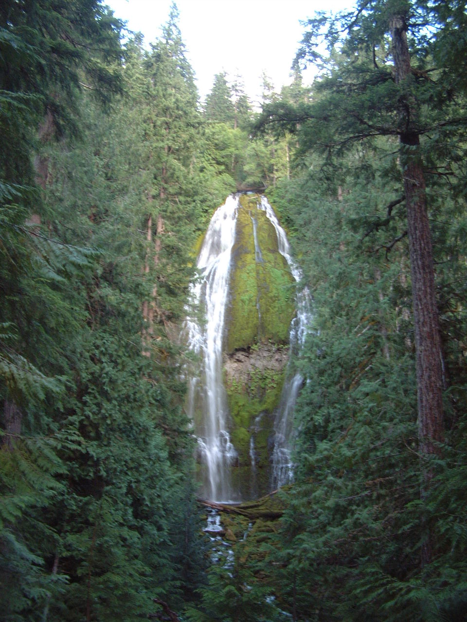 Proxy Falls, Three Sisters Wilderness, Willamette National Forest, Lane County, Oregon